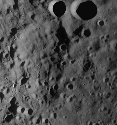 LROC image WAC No. M130911912ME. Swann is located just southwest of the two small craters seen at top of image